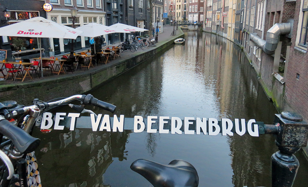 Bridge across Oudezijds Achterburgwal in Amsterdam, named after Bet van Beeren, who as a lesbian opened LGBT-bar 't Mandje in 1927.